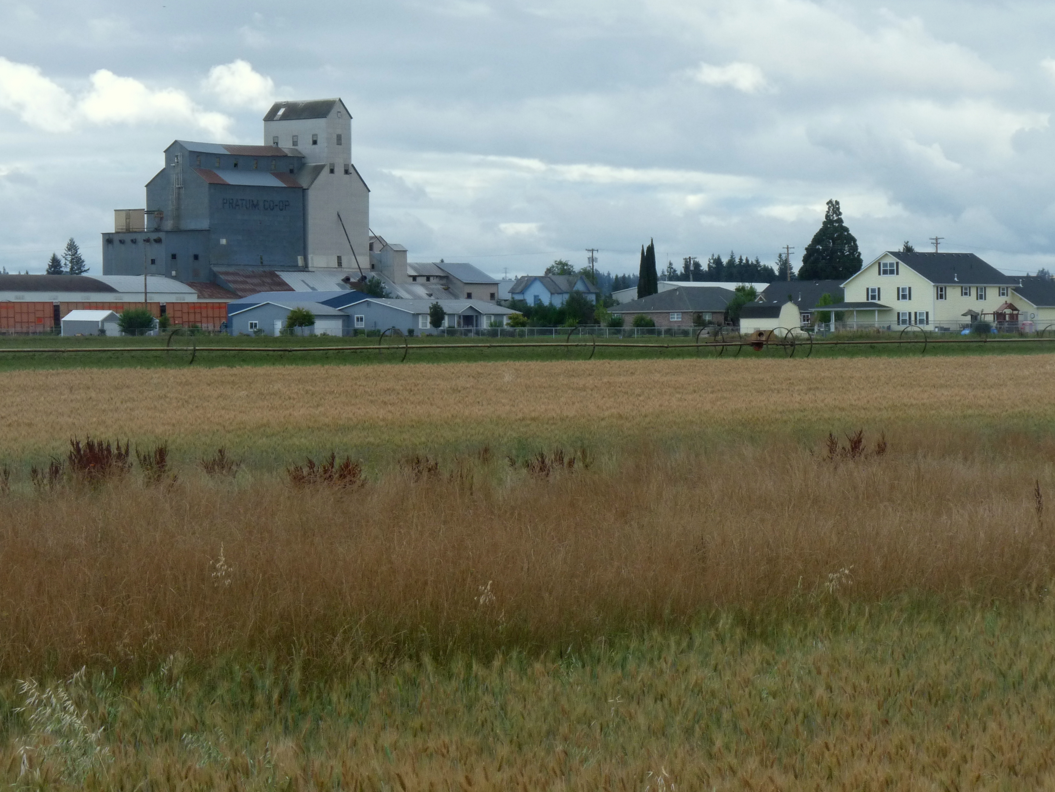 Pratum, Oregon, from Hazel Green Road